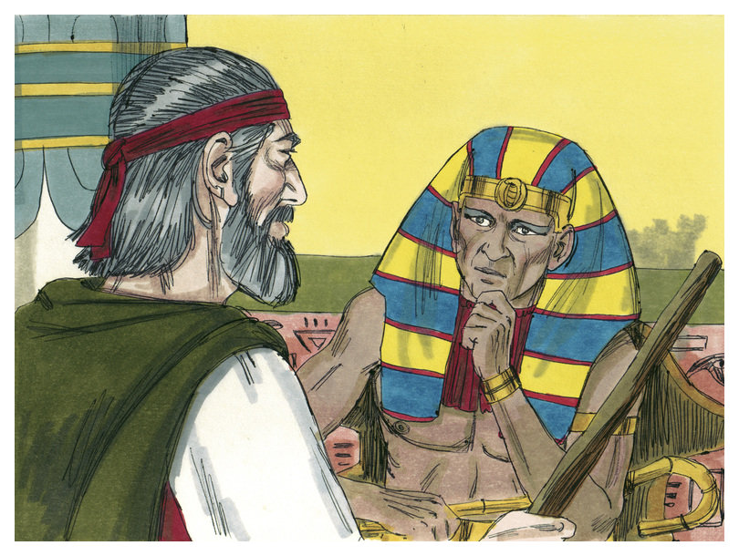 Biblical illustration of Book of Exodus Chapter 9